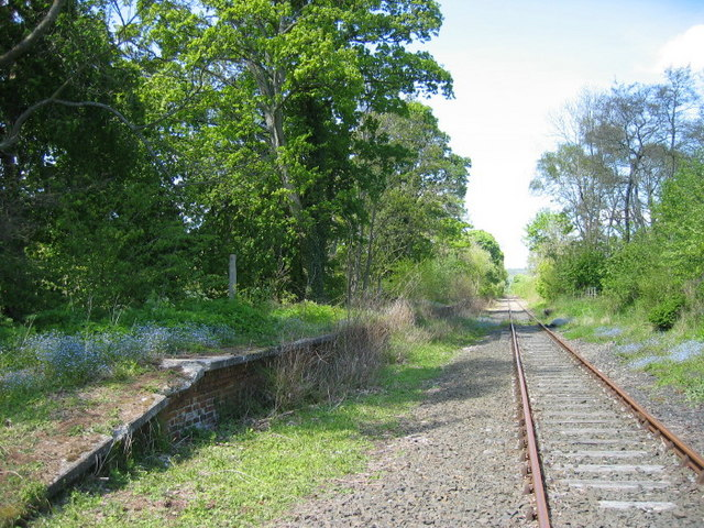 Remains of Harperley Station This is the north bound platform and the south bound no longer exists apart from a pile of rubble. This was the remotest station on the branch with no public vehicular access. It was opened as a small halt to serve the nearby Harperley Hall and its estate in 1861 but no longer appeared in a public timetable after May 1864. It was extensively enlarged and reopened on 1.11.1892 to serve the local ganister (a siliceous clay) and timber contractor who were provided with sidings either side of the line.